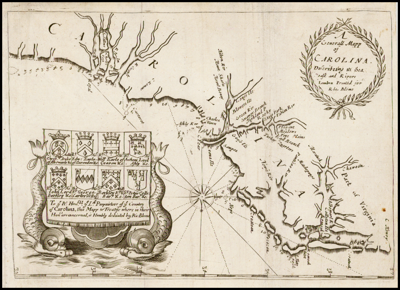 Map of Carolina